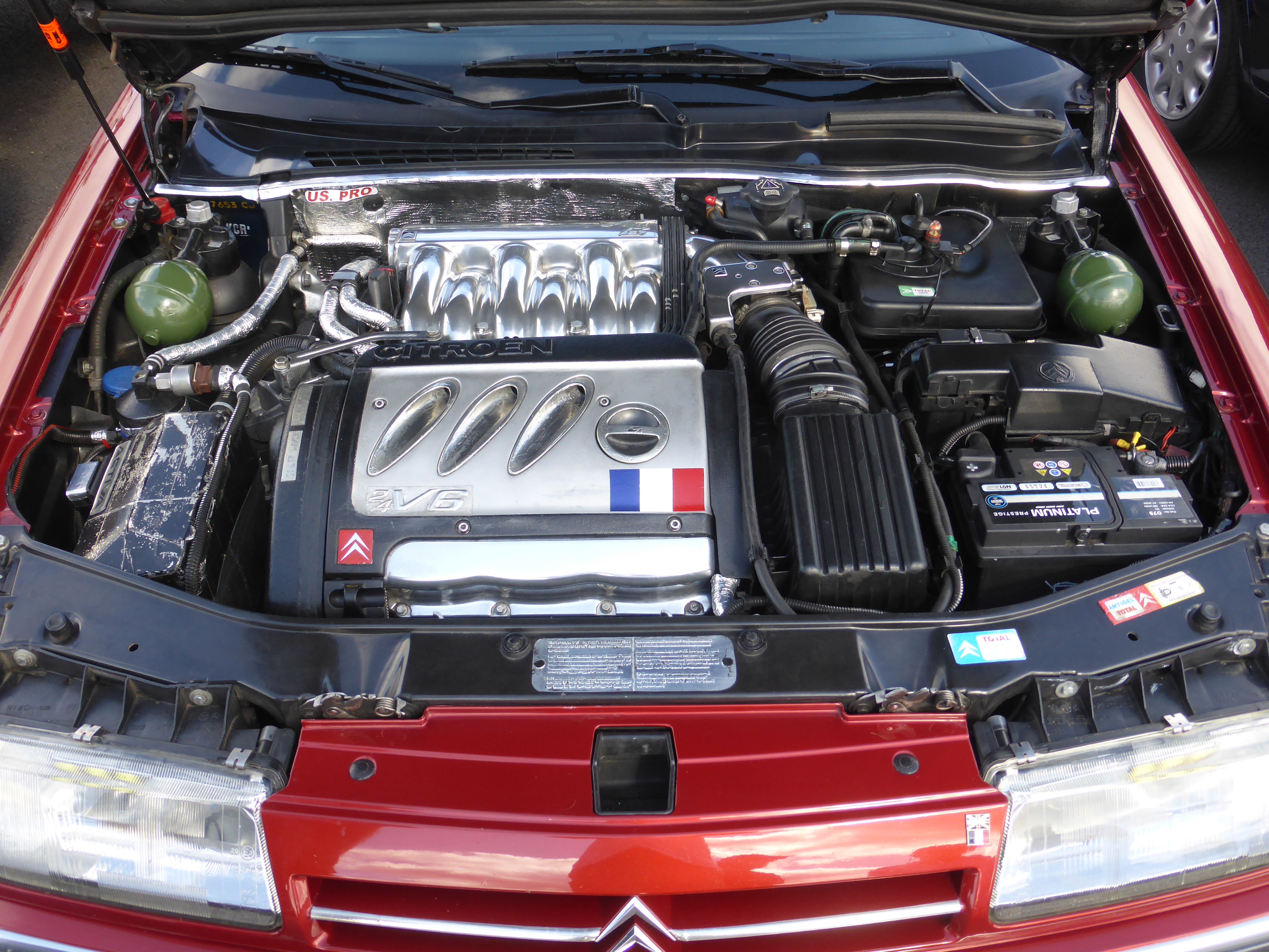 Haynes International Motor Museum Breakfast Club